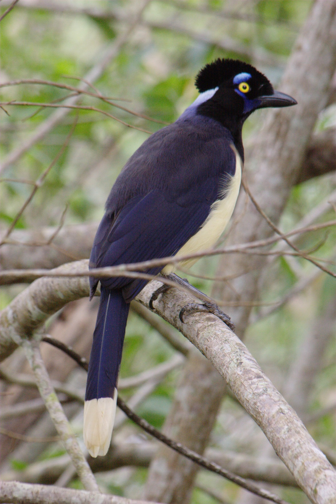 Plush-crested Jay (Cyanocorax chrysops), Iguazú National Park (Argentina)